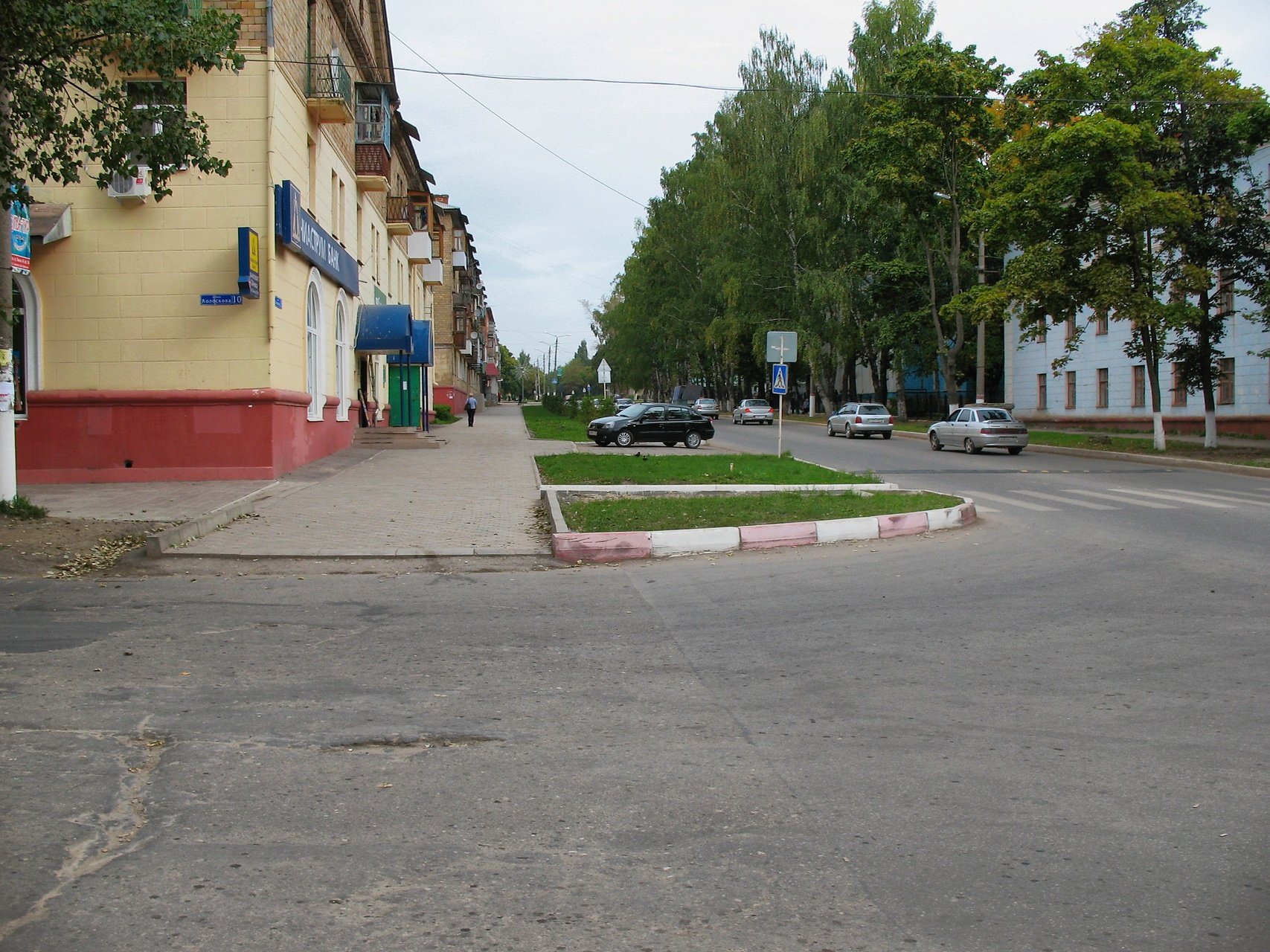 Shchyokino